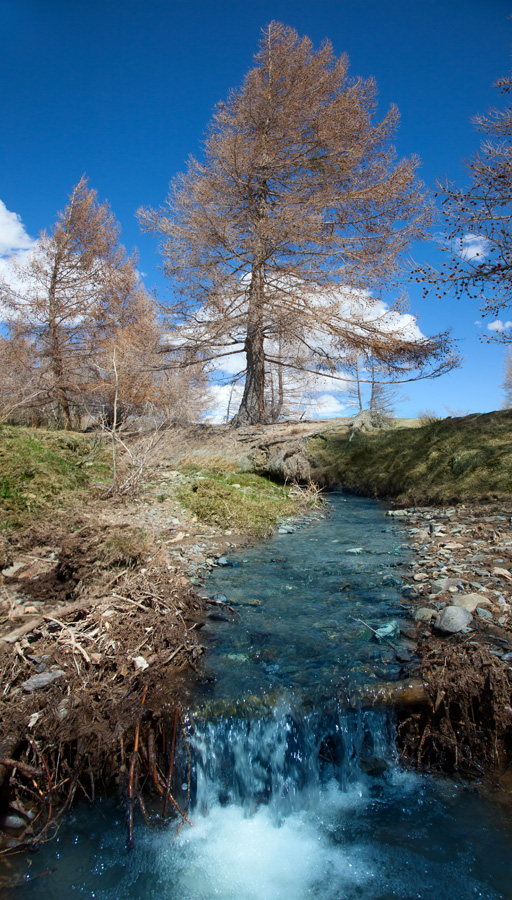 tydtuyarik - a river in the Altai Mountains